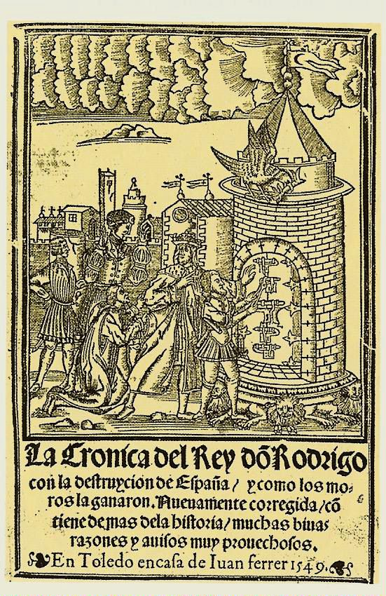 Title page of La Crónica del Rey don Rodrigo (The Chronicle of the Lord King Roderick) by Alonso de Cartagena (1385-1456)